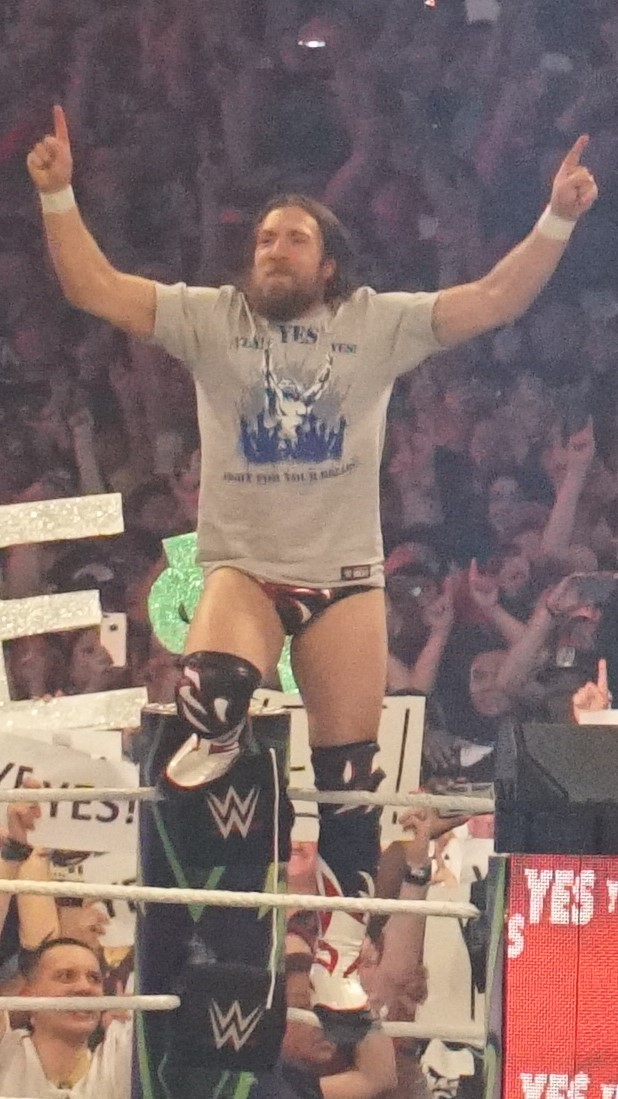 Daniel Bryan making his return to wrestling at WrestleMania 34.